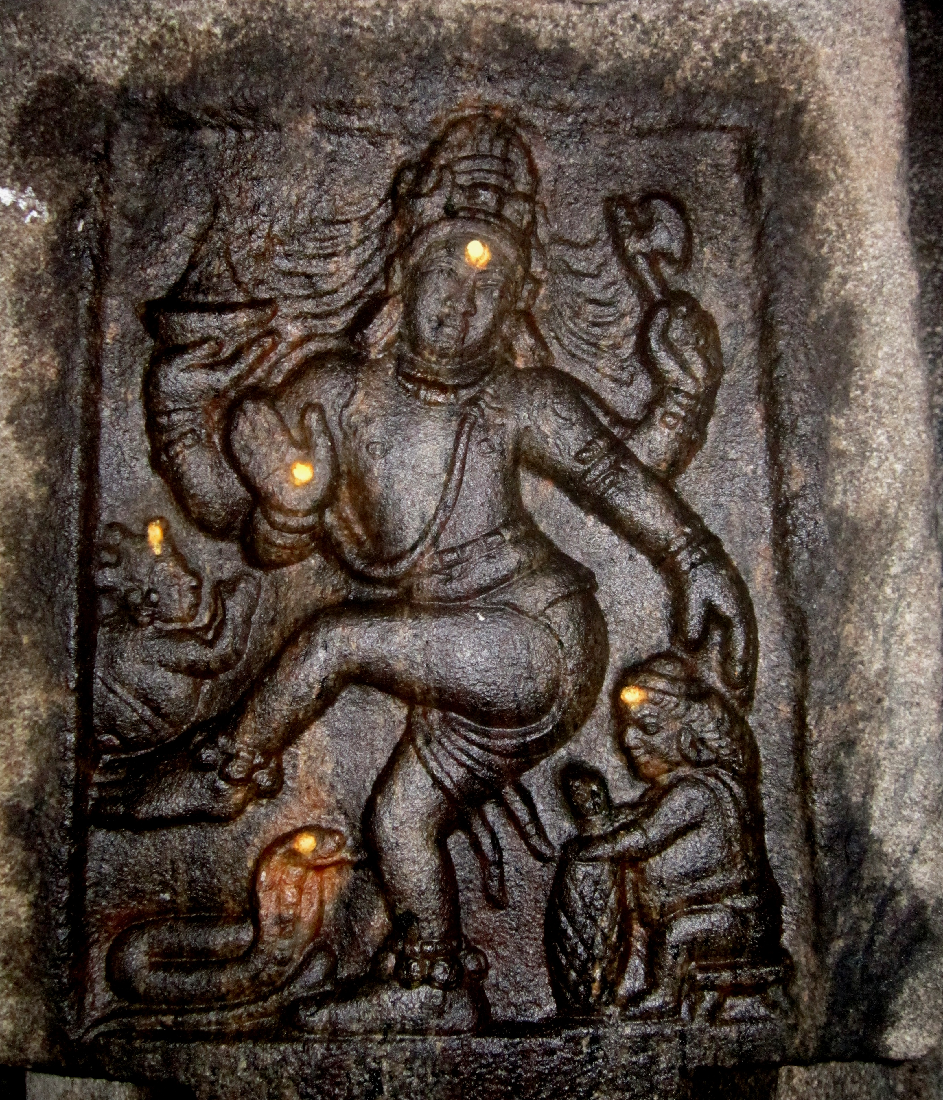 Natarajar